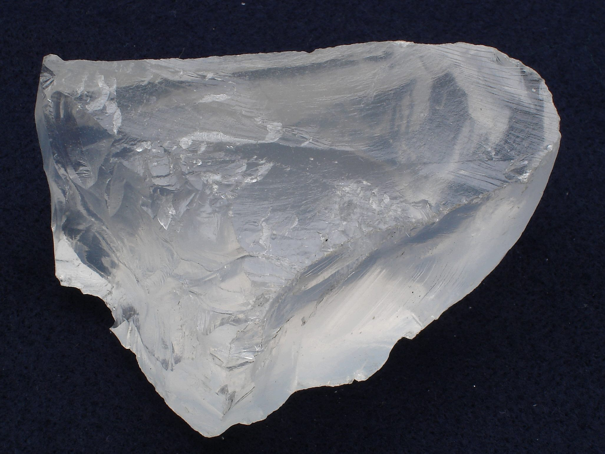 A 3 x 4 cm fragment of Petalite (LiAlSi4O10)from Minas Gerais State, Brazil.